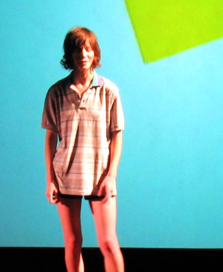 Miranda July low-quality (but free) placeholder Source flickr